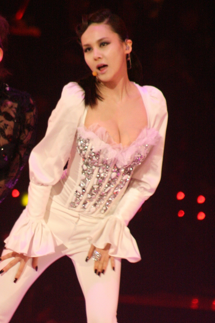 Ivy in the 2009 MAMA.